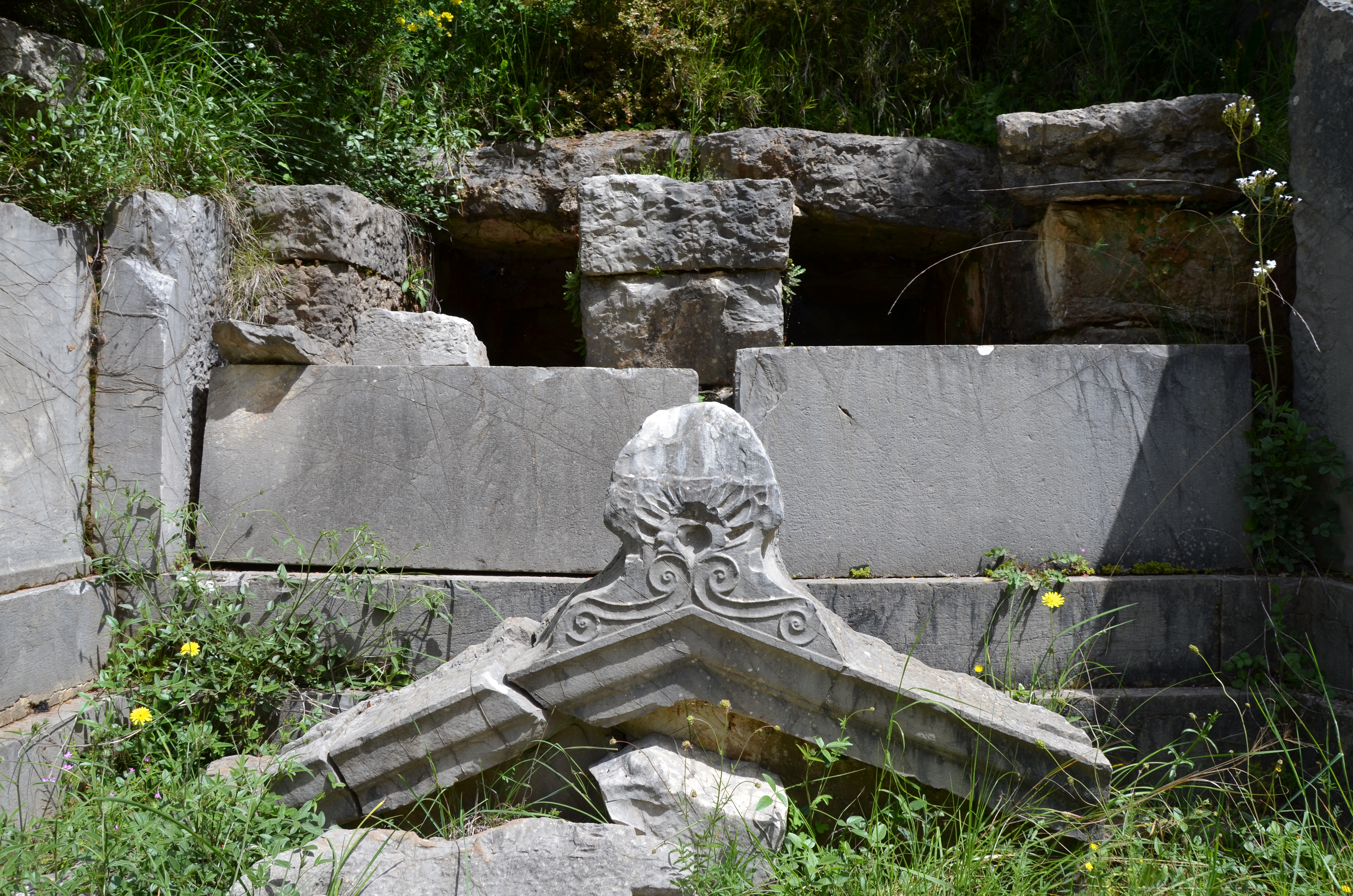 Temple-shaped facade tomb carved into the natural rock, built during the 3rd century BC, Necropolis of Phigaleia, Arkadia, Phigaleia